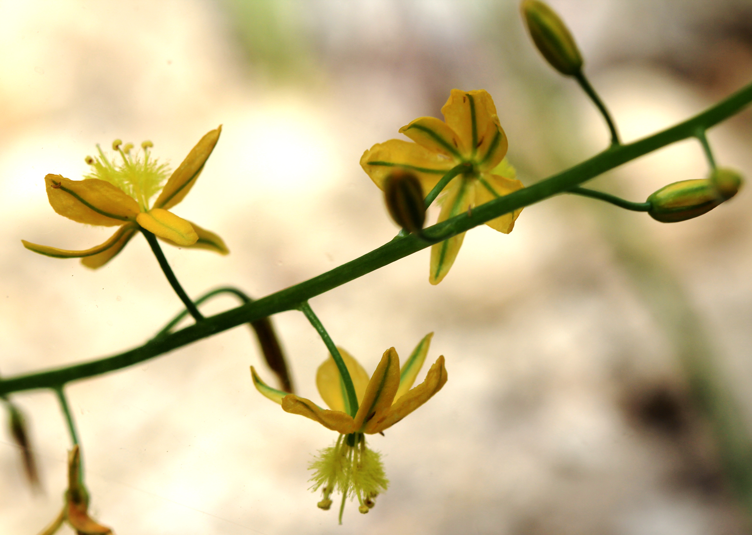 Detail of flower of plant Bulbine alooides, The Botanical Gardens of Charles University, Prague, Czech Republic